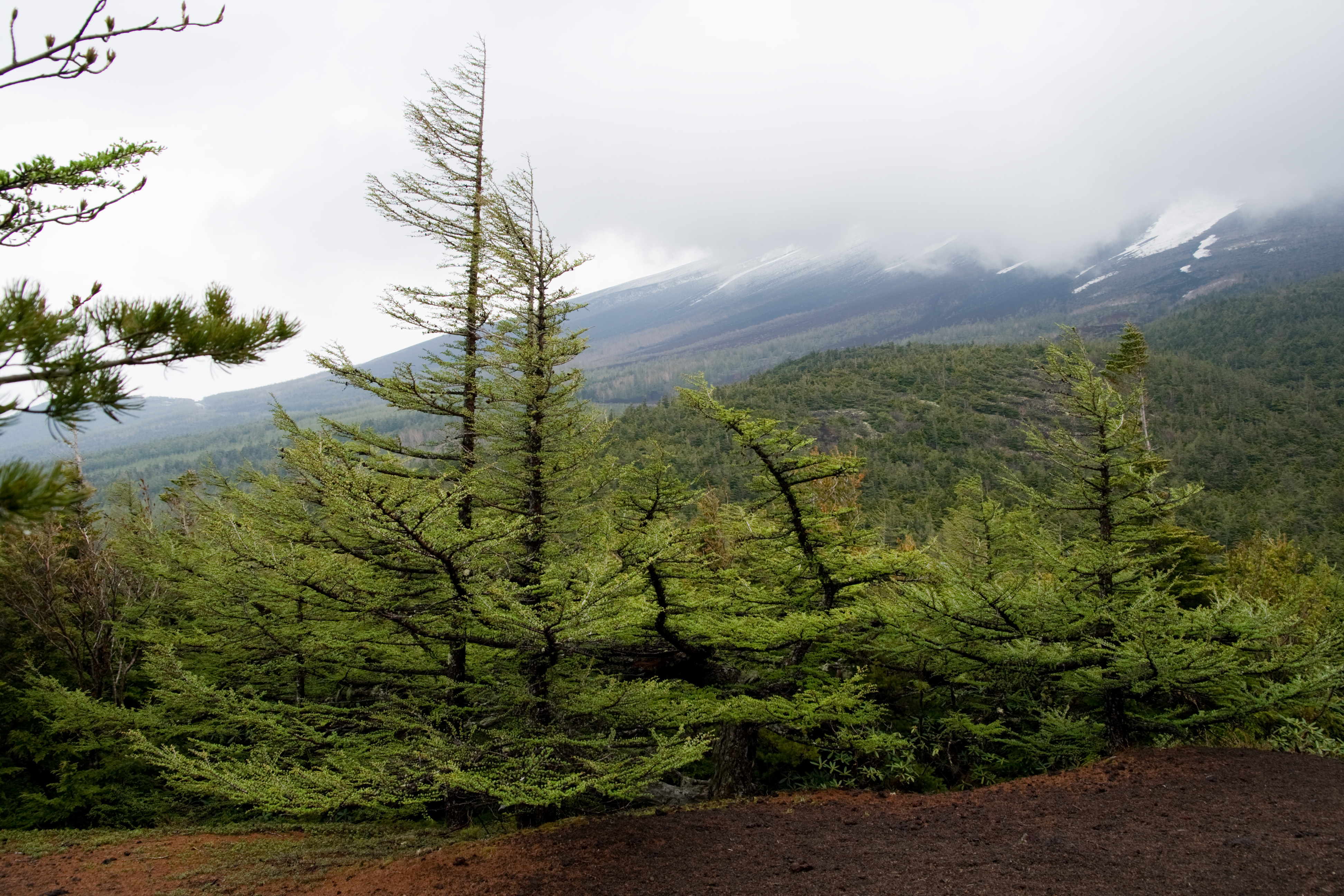 Japanese Larch Larix kaempferi, Okuniwa (奥庭) in Mt.Fuji, Yamanshi Prefecture, Japan. Elev-2180m